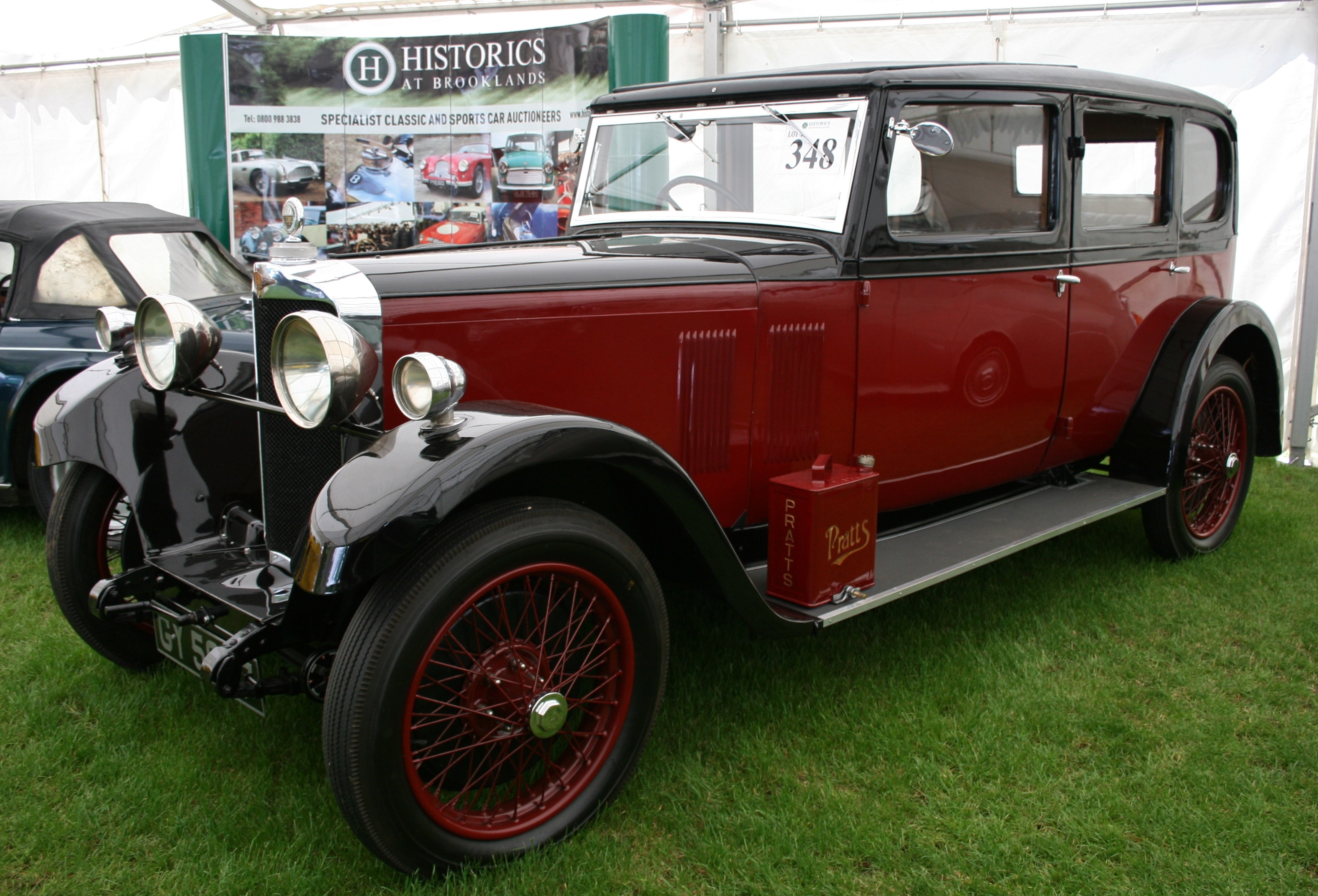 1932 Talbot AU14/45 Four-dr Weyman Panelled Saloon by Darracq Registration GY 5927 Chassis Number 31625 Engine Number AU616 Source of info